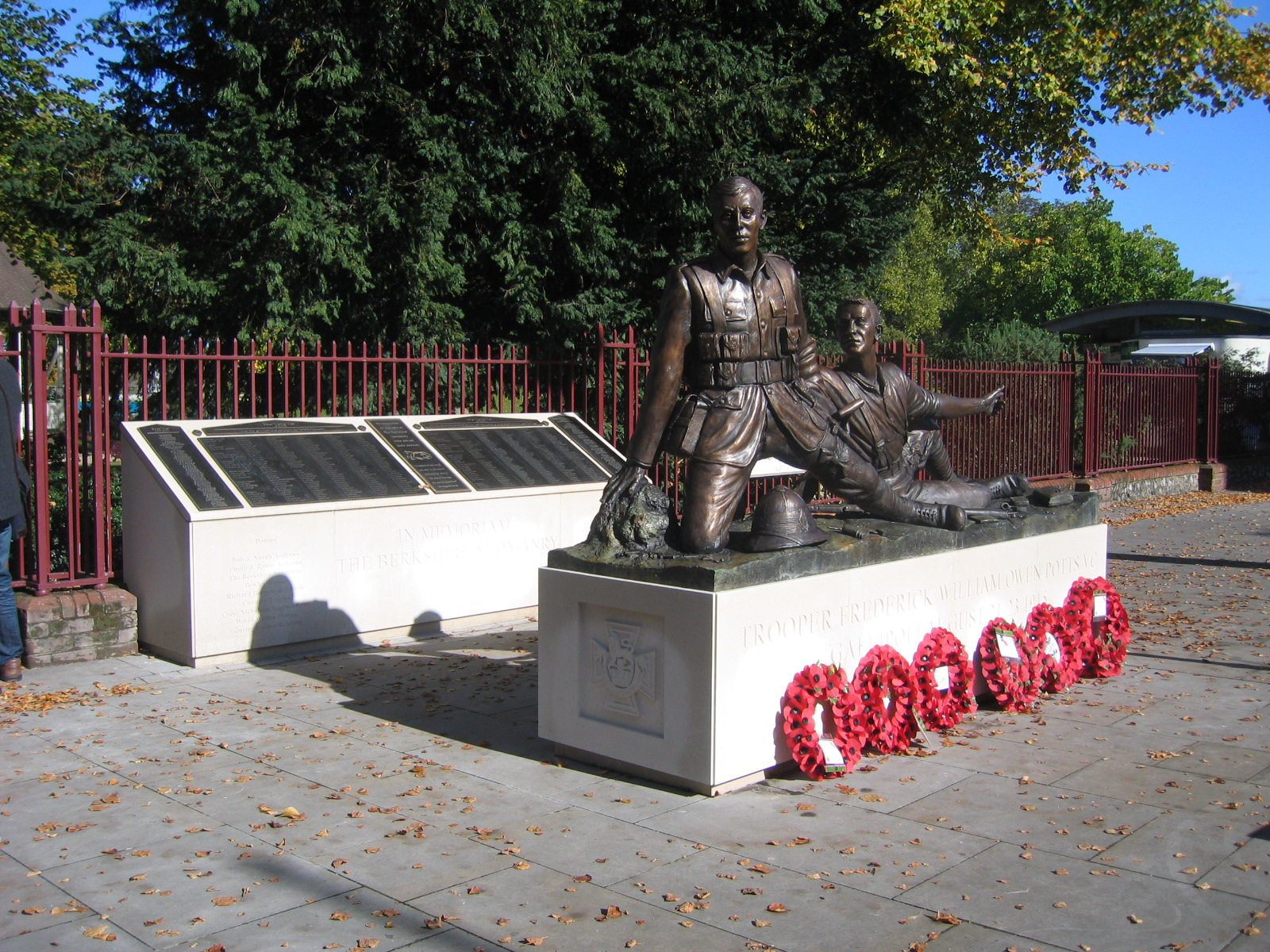 After the unveiling ceremony on 4 October. Sculpture of Trooper Potts VC ( left) rescuing Trooper Andrews. Roll of Honour listing 426 men of The Berkshire Yeomanry against the railings